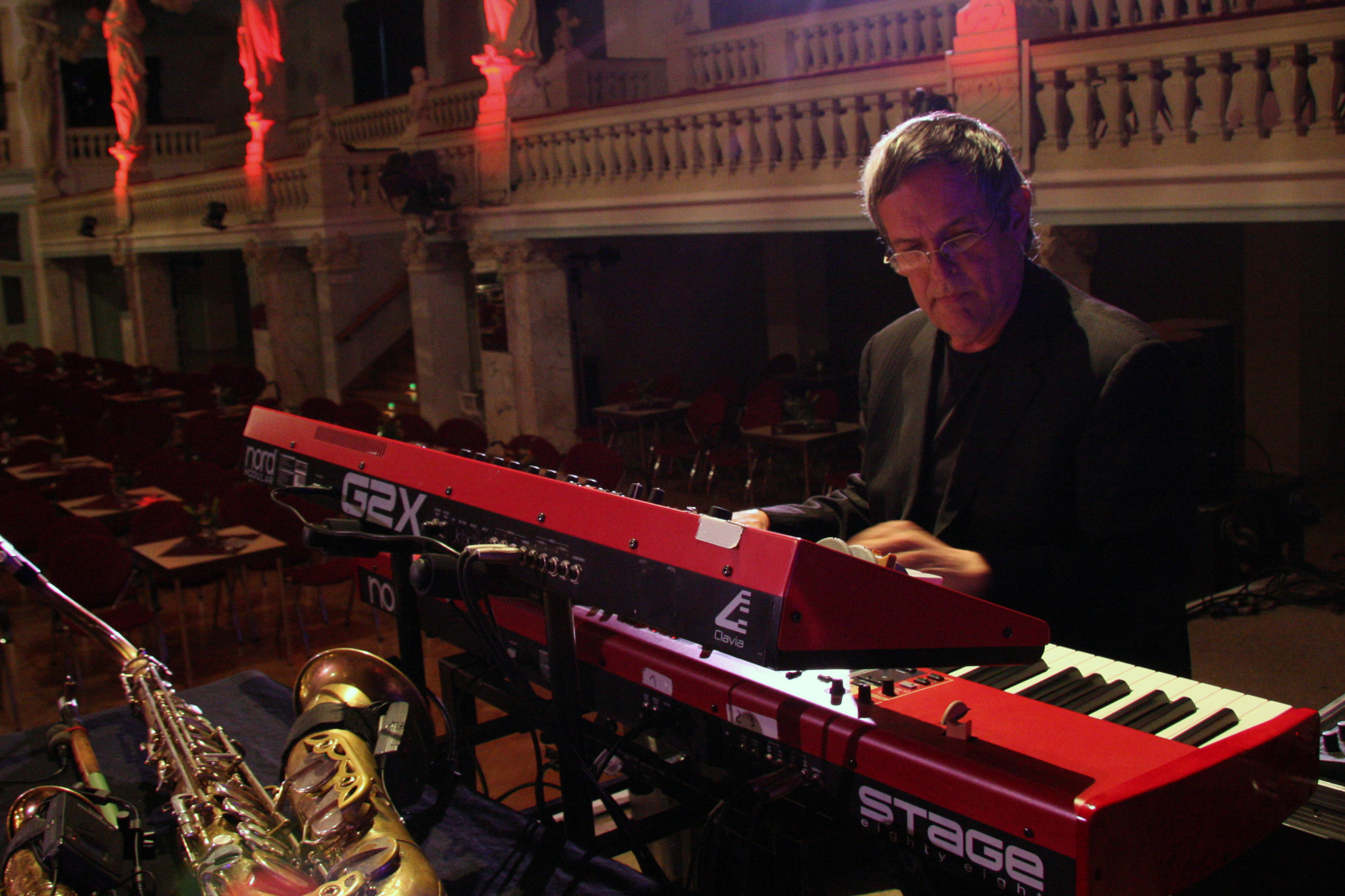 Kristian Schultze doing sound check on a Passport Classic concert. 29.10.2011 Zwickau, Germany